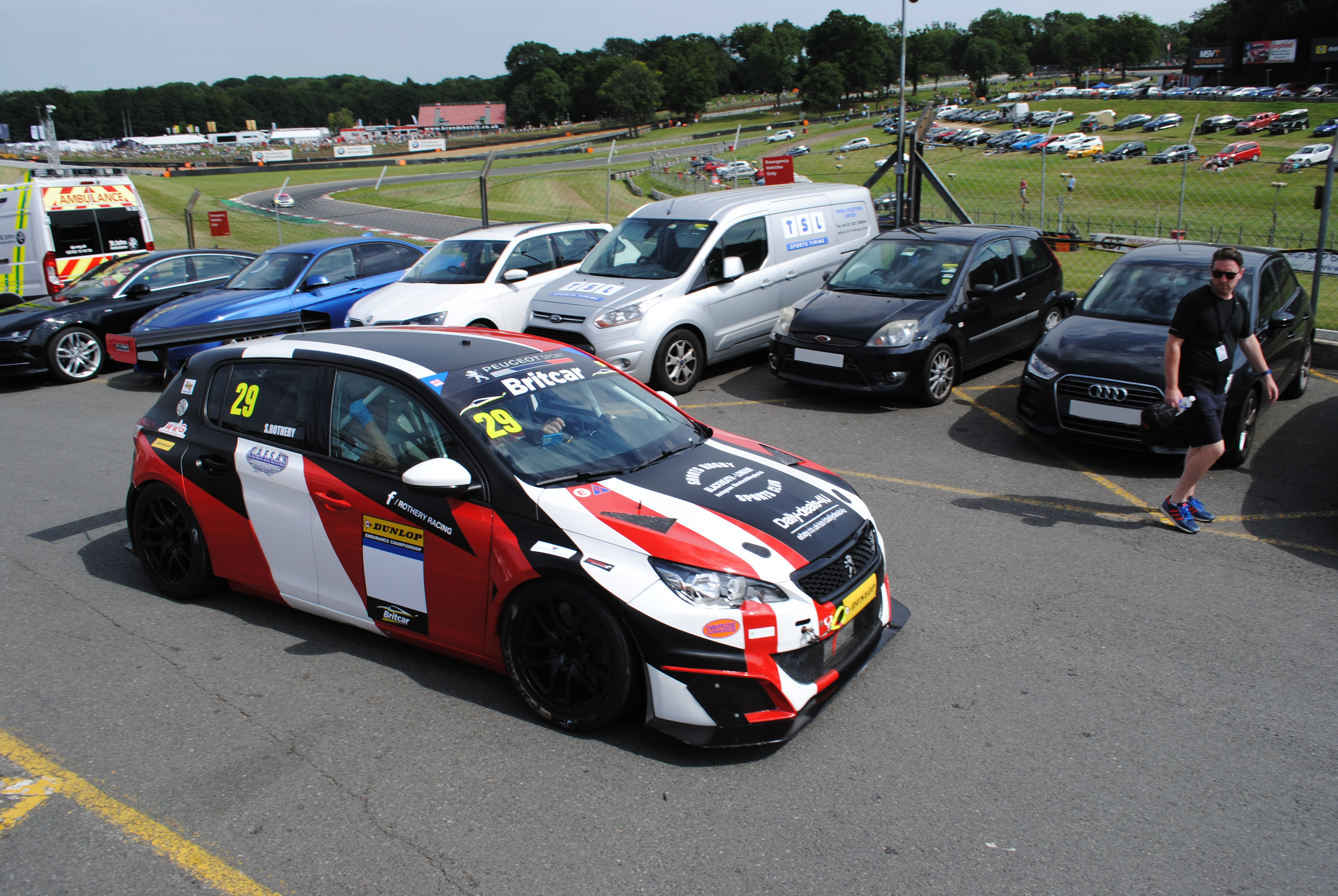 A TCR-Spec Peugeot 308 Racing Cup driven by Steve Rothery in a support event at Brands Hatch for the British GT Championship.